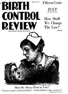 Cover of Birth Control Review July 1919 Captions: "How shall we change the law?", "Must She Always Plead in Vain? "You are a nurse - can you tell me? For the children's sake - help me!"